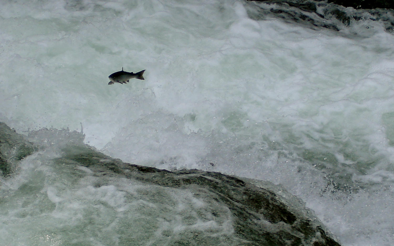 Salmon jumping in the Russian River